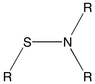 structure of the sulfenamide functional group